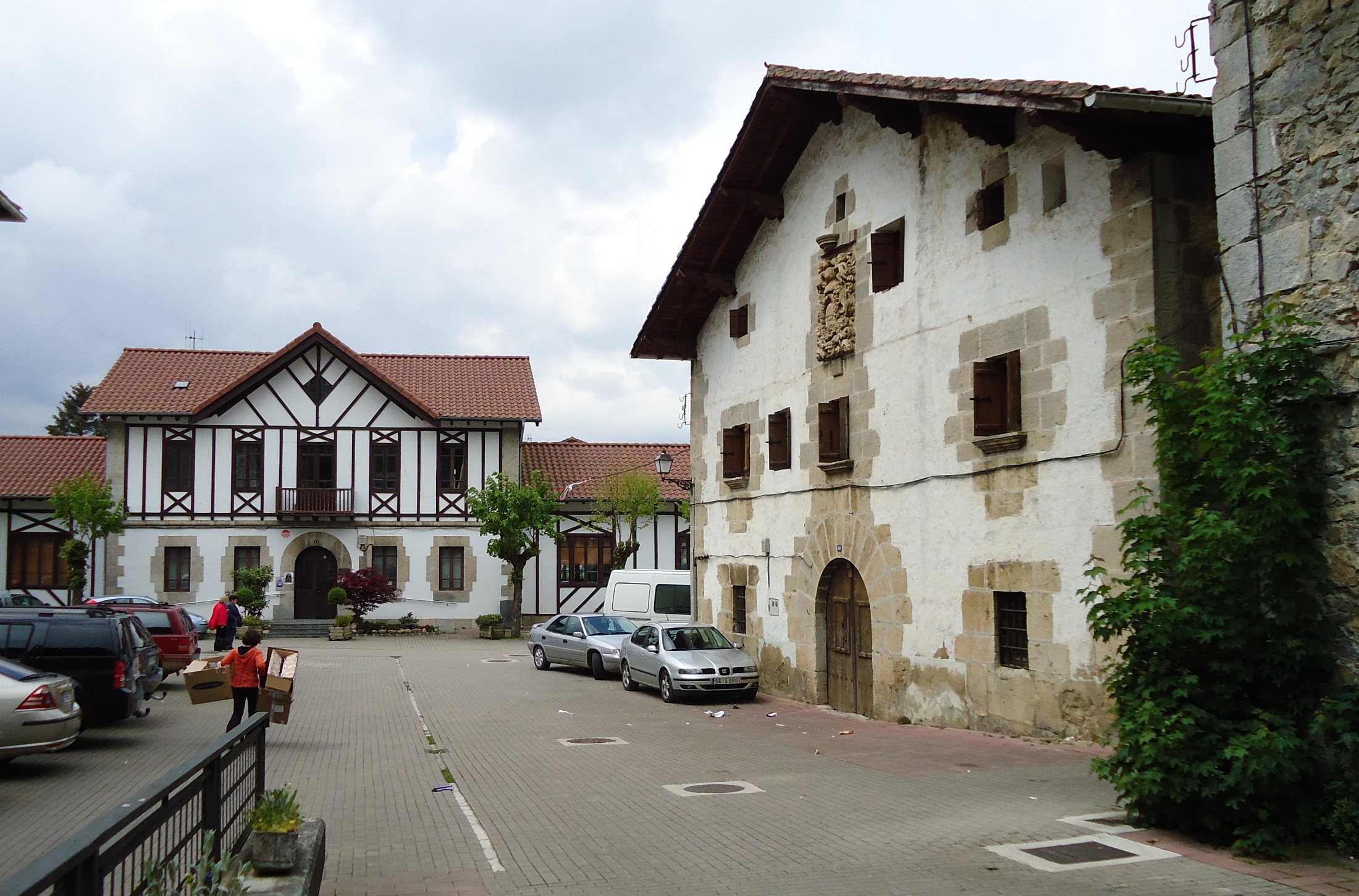 Lekunberri village (Navarre)